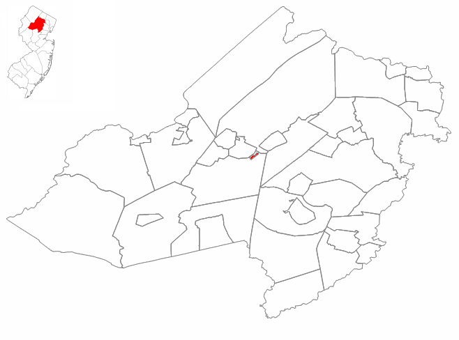 Position of Victory Gardens (highlighted in red) in Morris County. Morris County's position in New Jersey is in turn highlighted in red.